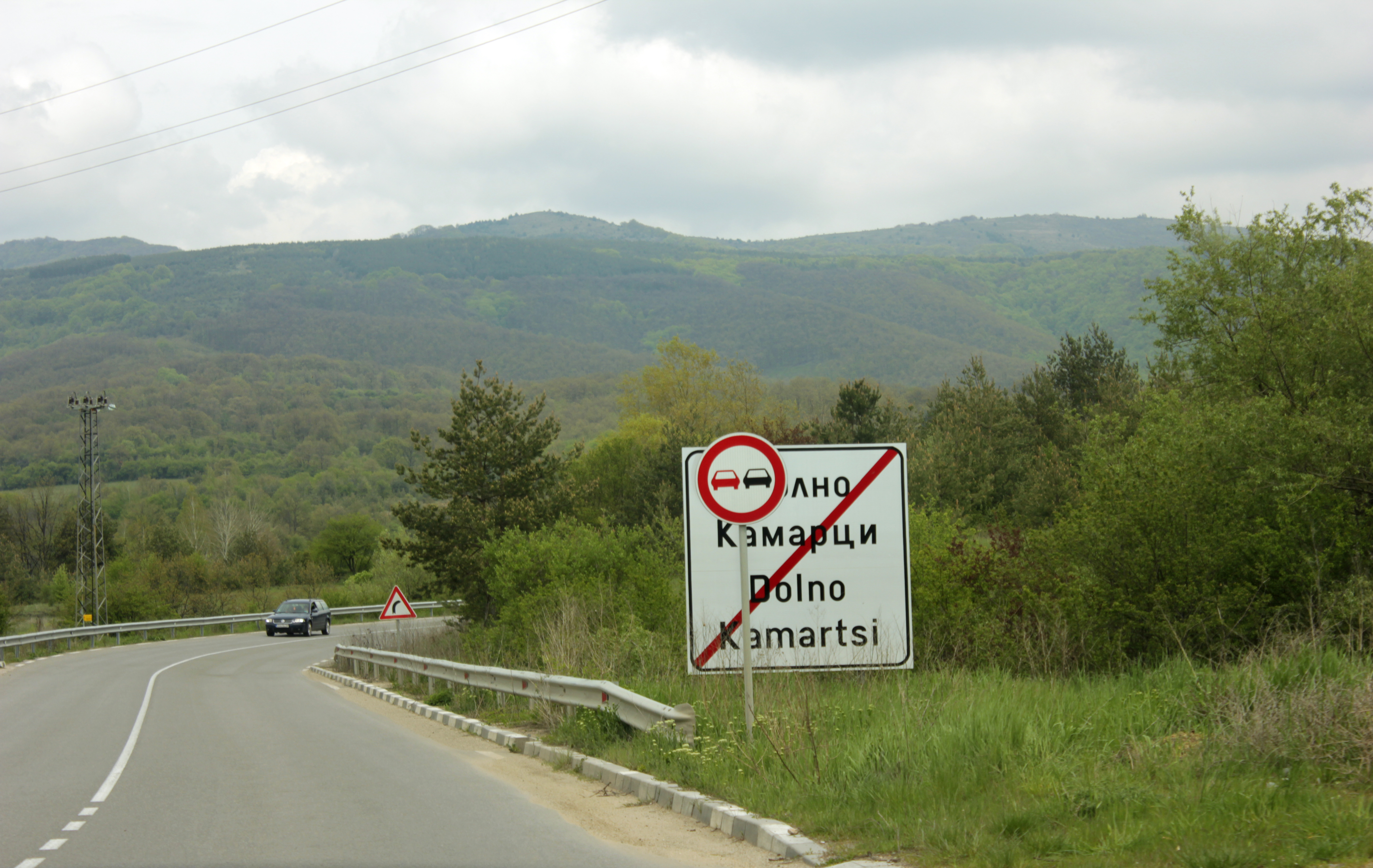 View of Galabets ridge from west